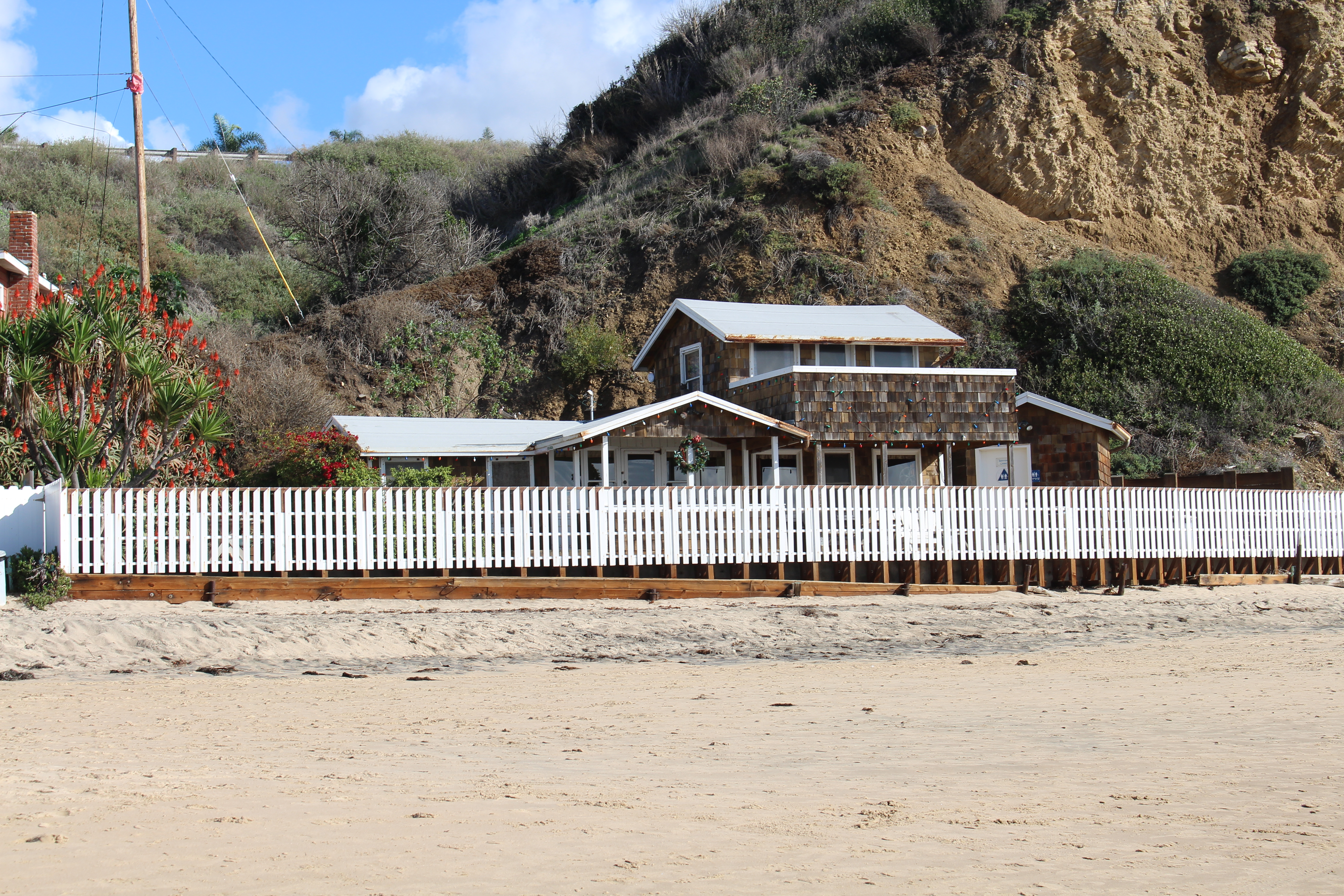 Cottage #13 at Crystal Cove Historic District, Crystal Cove State Park, California. This cottage was used for filming the beach house scenes in the 1988 film Beaches. Photographed by user Coolcaesar on December 24, 2019.